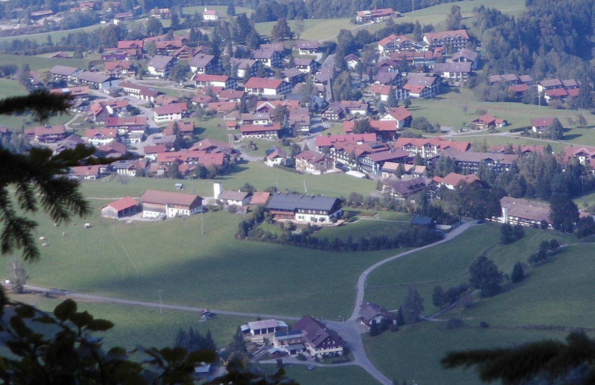 Steibis from Imberg